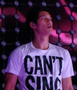 Harry Shum, Jr. as Mike Chang performing "Born This Way" on the "Glee Live! In Concert!" tour in Manchester, England on June 23, 2011